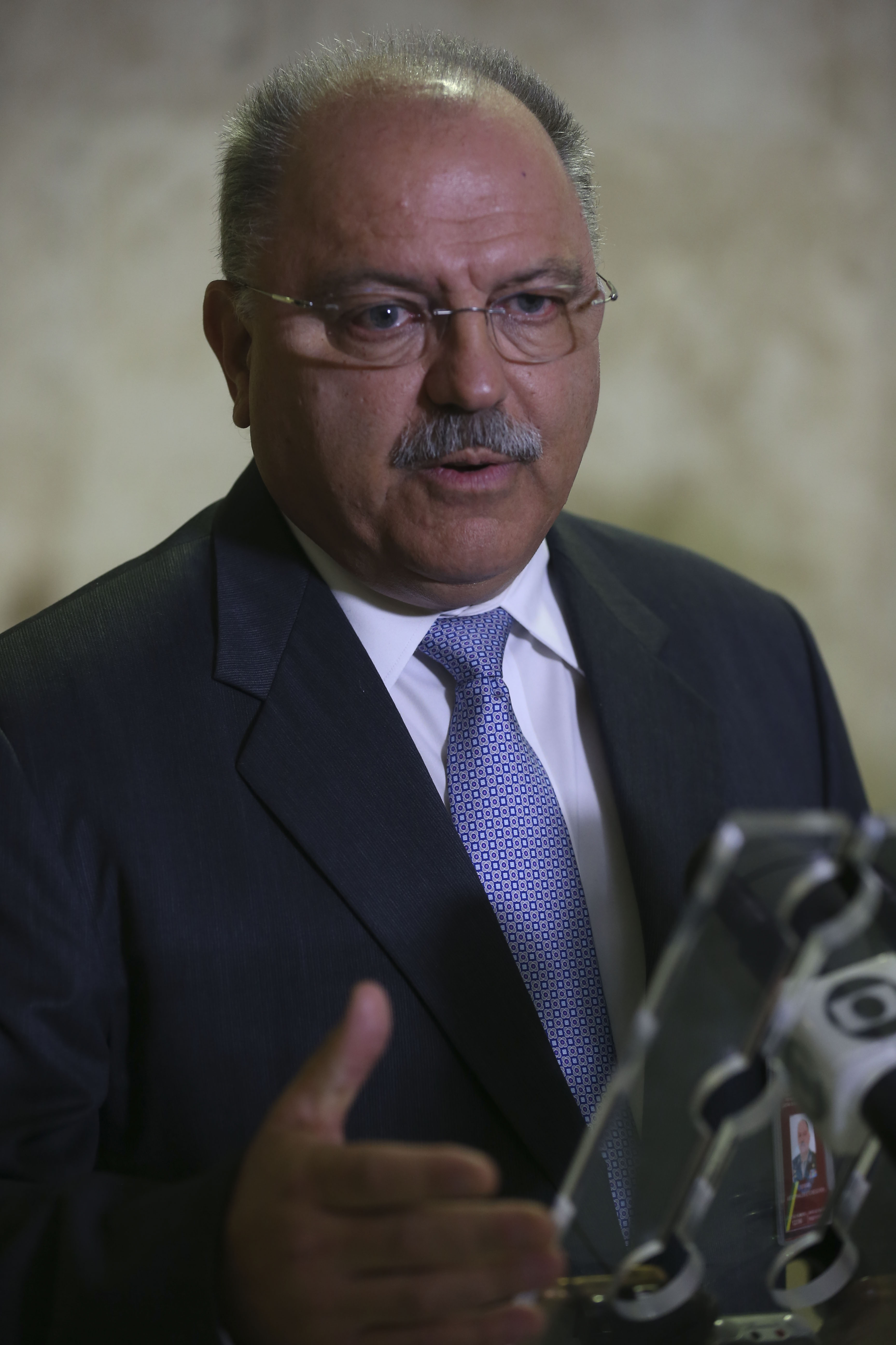 Brasília - Entrevista coletiva do ministro-chefe do Gabinete de Segurança Institucional do Brasil, Sérgio Westphalen Etchegoyen (Valter Campanato/Agência Brasil)